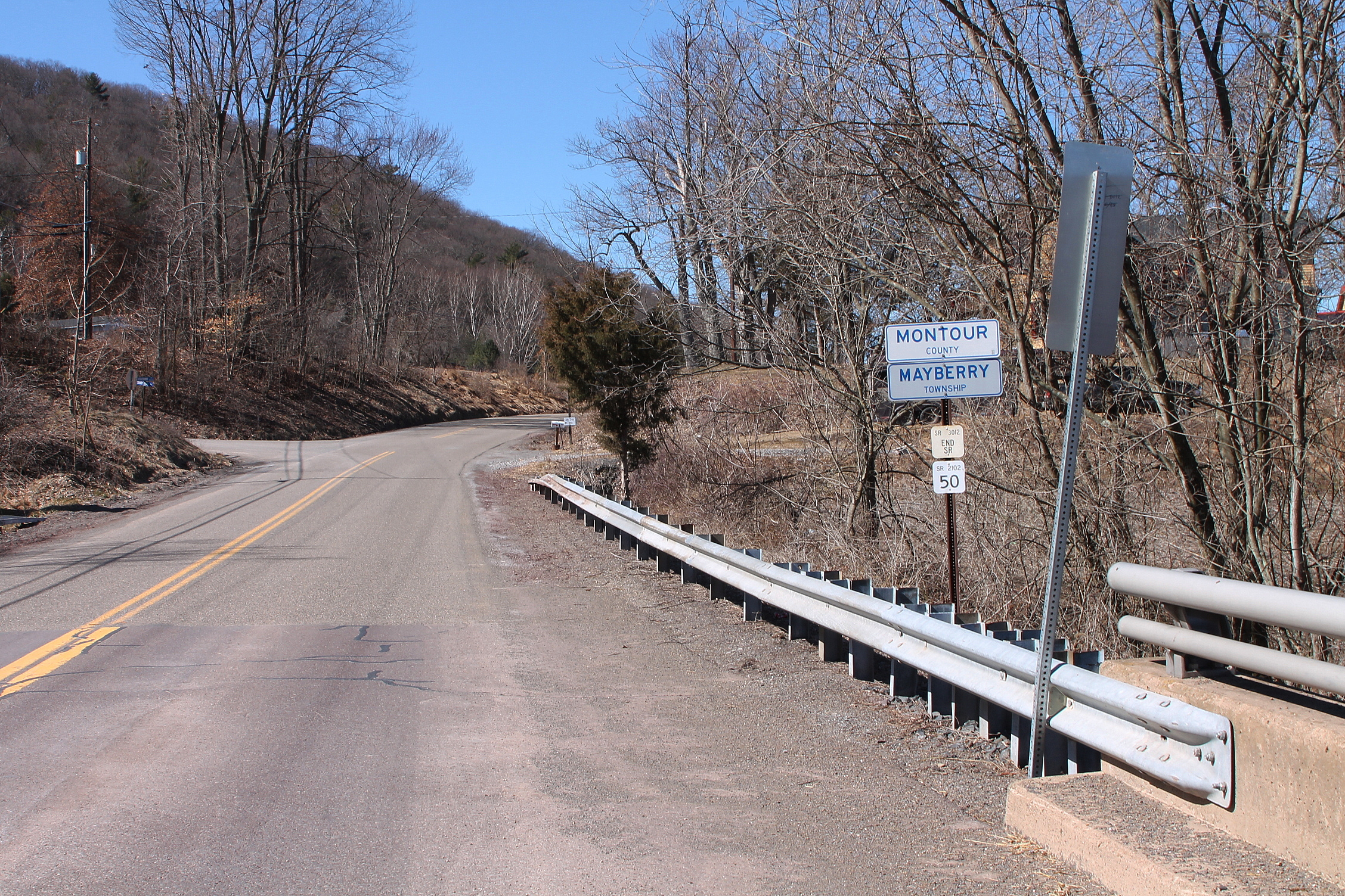 Montour County line on State Route 2102, entering Mayberry Township